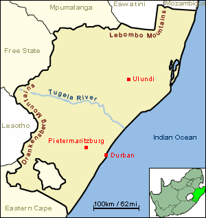 Map location of KwaZulu-Natal showing the Tugela River